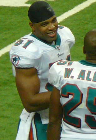 If used somewhere other than Wikipedia, Nelson, by name.